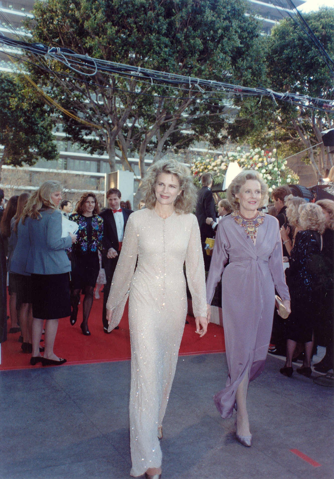 Candice Bergen and Frances Bergen at the 62nd Academy Awards 3/26/90